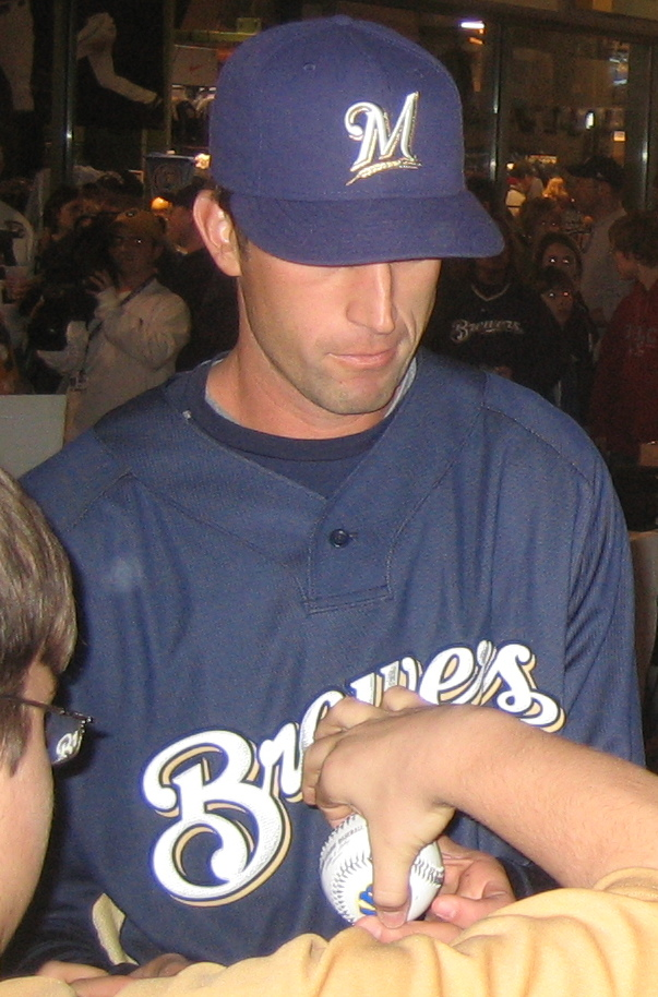 Derrick and Matt taking the stage, but signing autographs first.